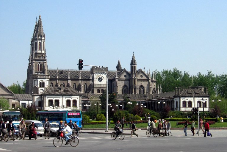 Photograph of the Sacred Heart Cathedral at the Shandong University in Jinan, Shandong, China.